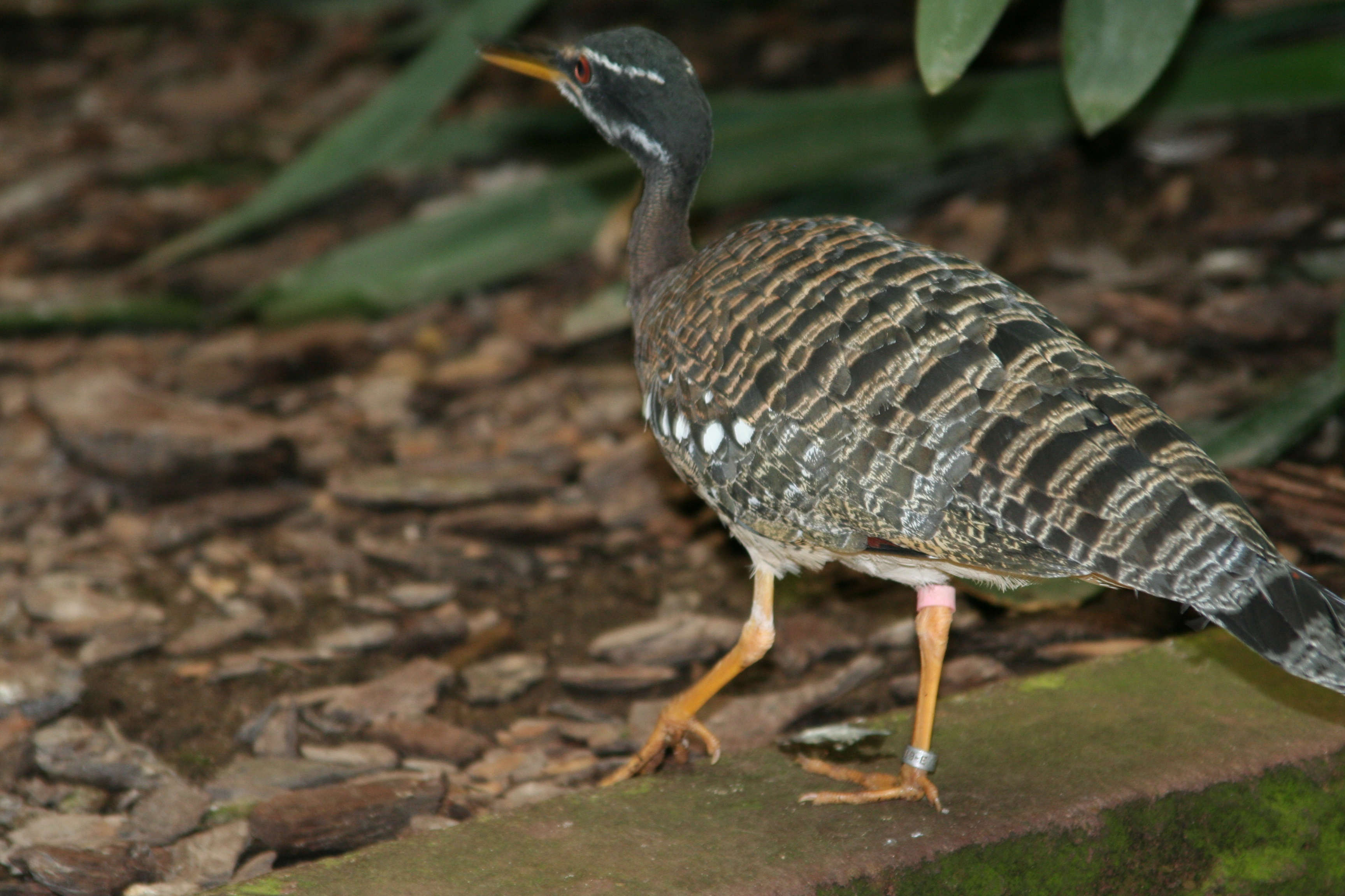 Sunbittern, Eurypyga helias, captive bird. Location: Walsrode, Germany